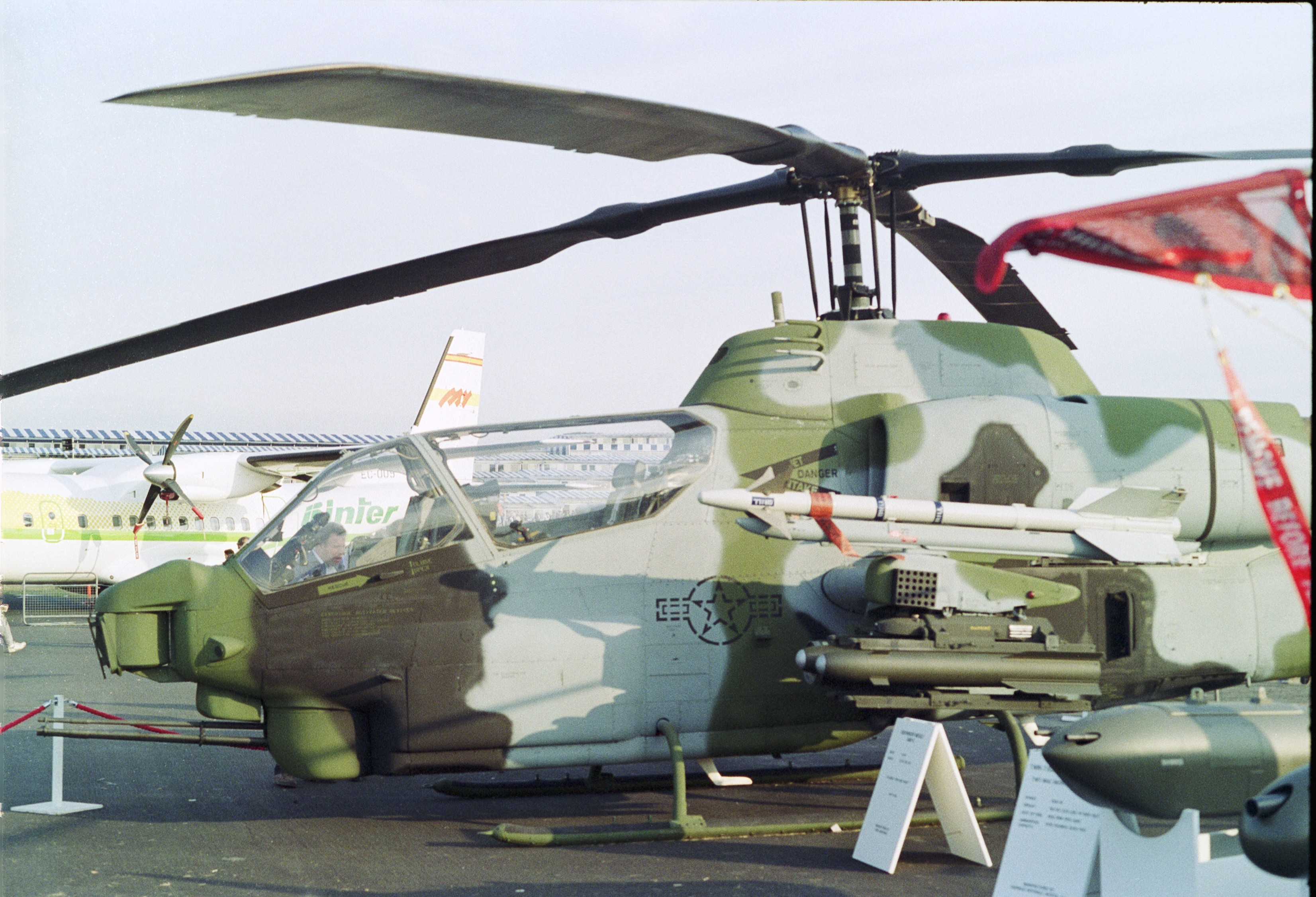 Farnborough (FAB / EGLF) UK - England, September 1990.